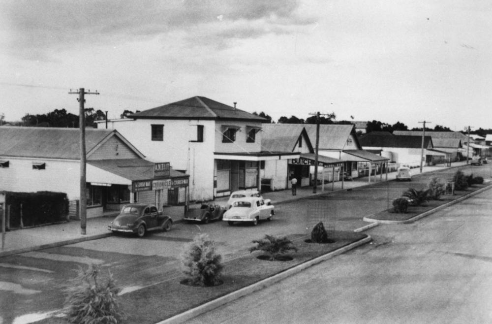 View of Main Street, Inglewood, 1951. Motor vehicles are parked in the main street and a row of shops can be seen, including a butcher shop and a newsagent.